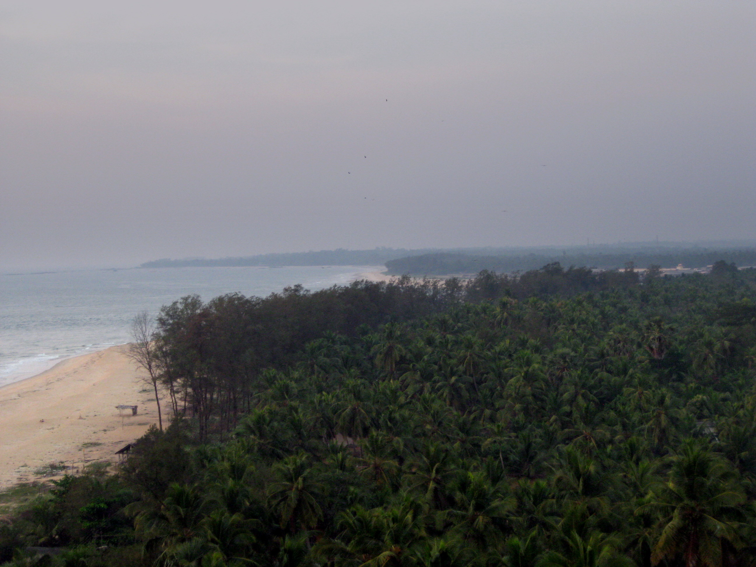 View from Kundapur Light House